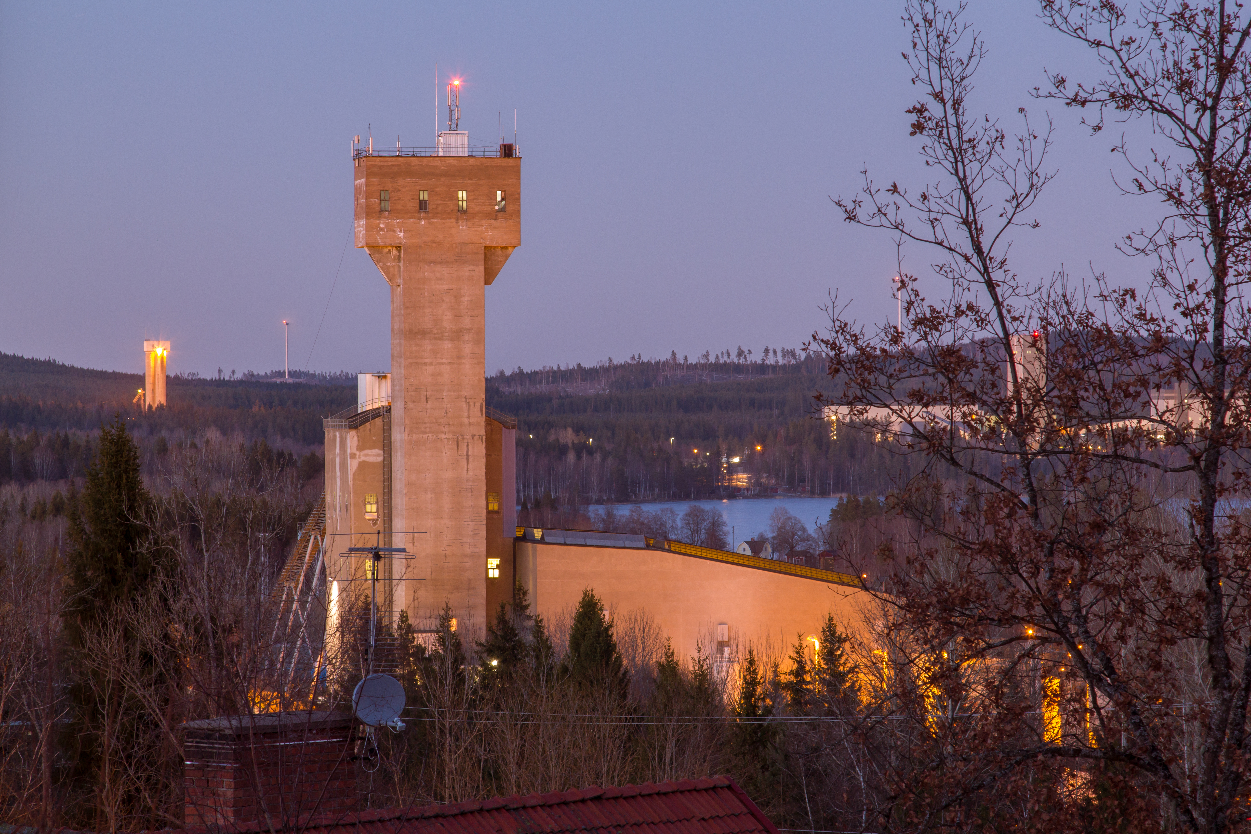 Garpenberg, Dalarna County, Sweden. The three headframes of Garpenberg sulphide mine, and two of the windmills at Högtjärnsklack.